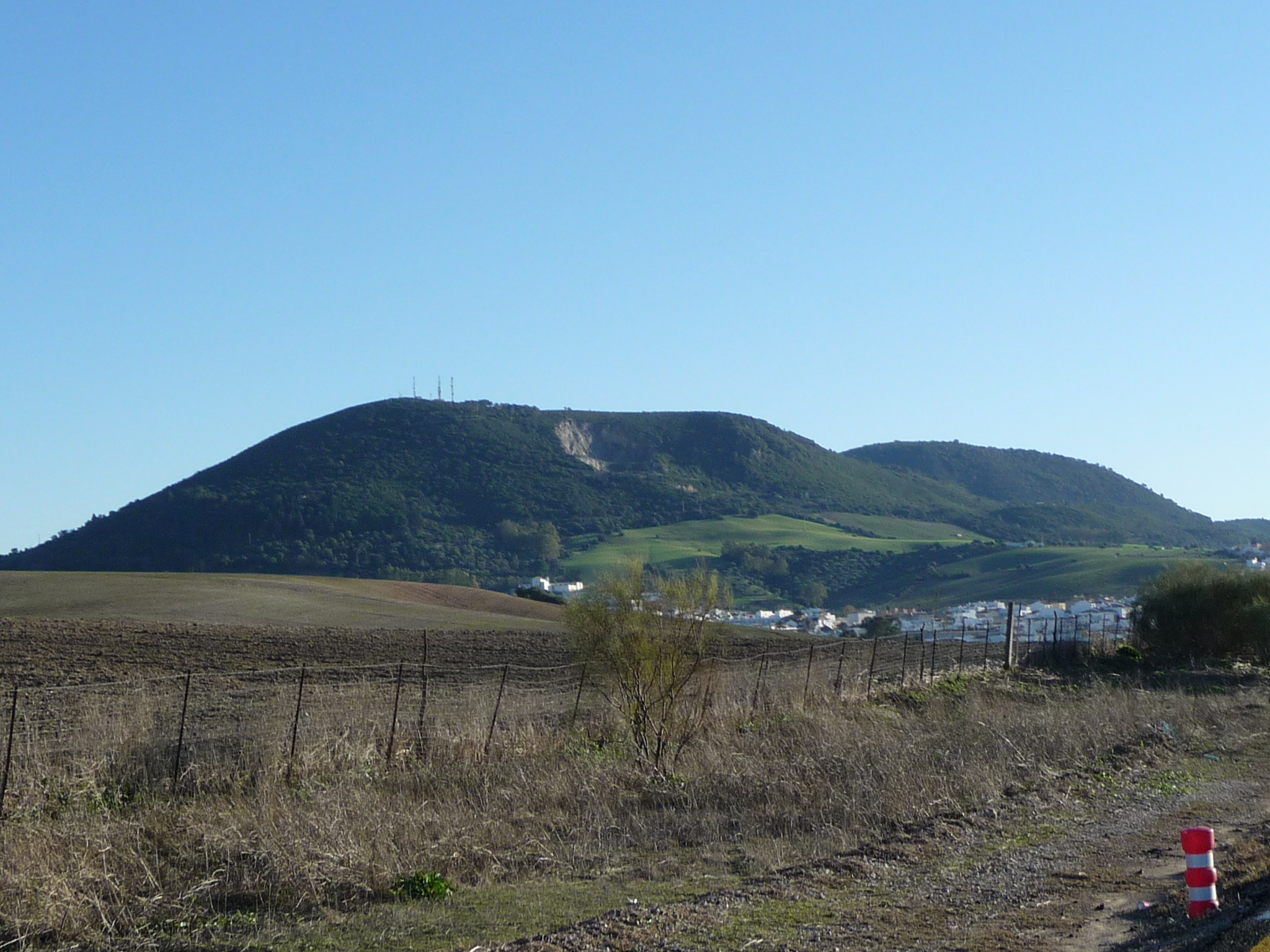 San Jose del Valle. Andalusia, Spain